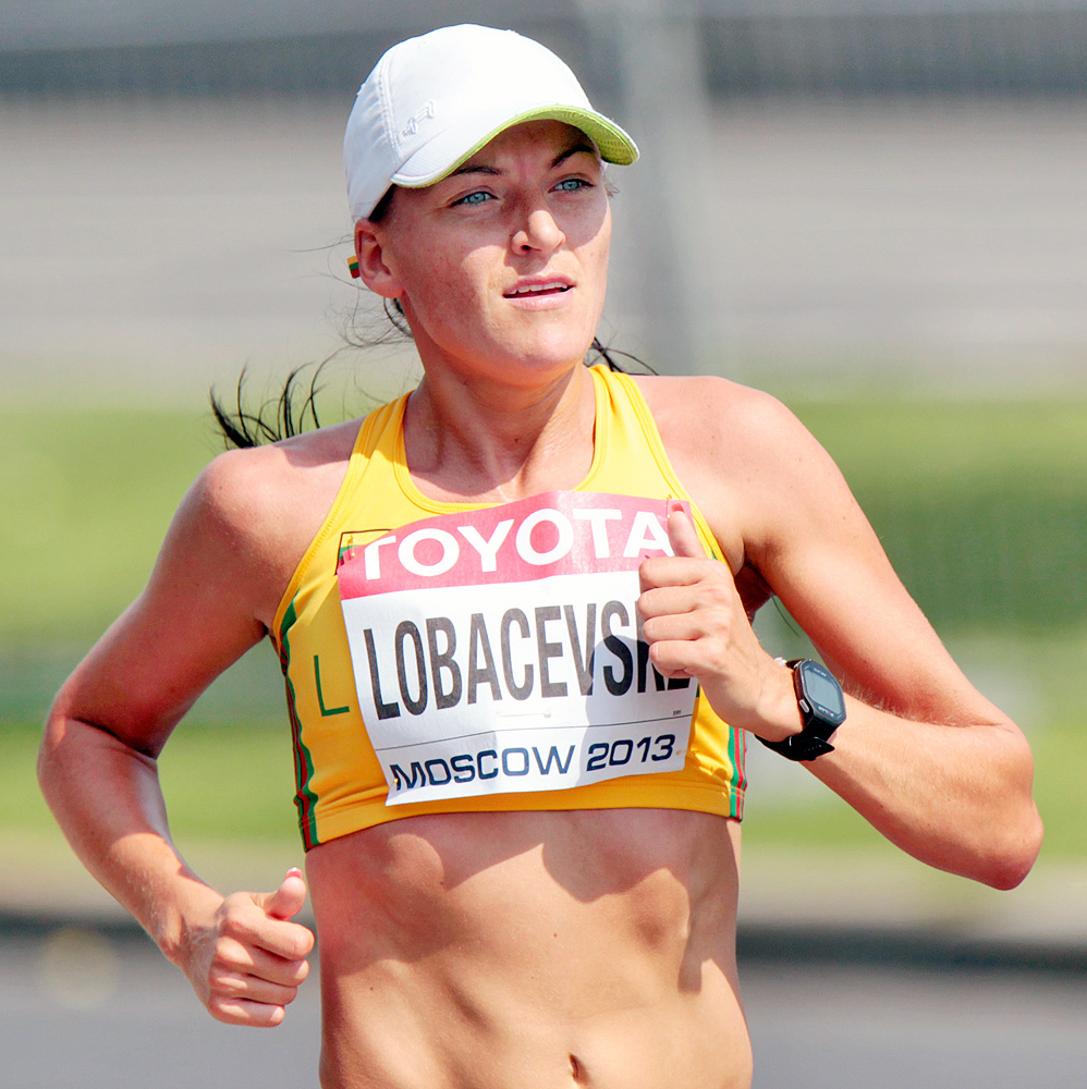 Diana Lobacevske in 2013 World Championships in Athletics